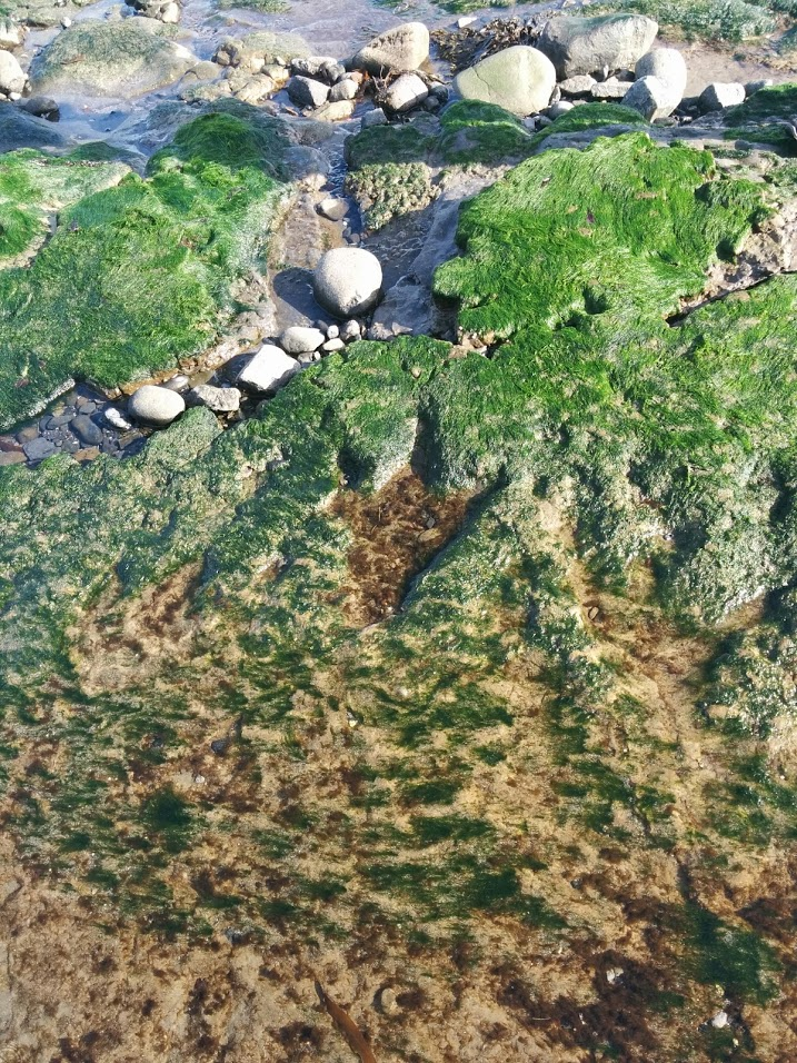 Reputed dinosaur footprint on shore of Skye in Staffin